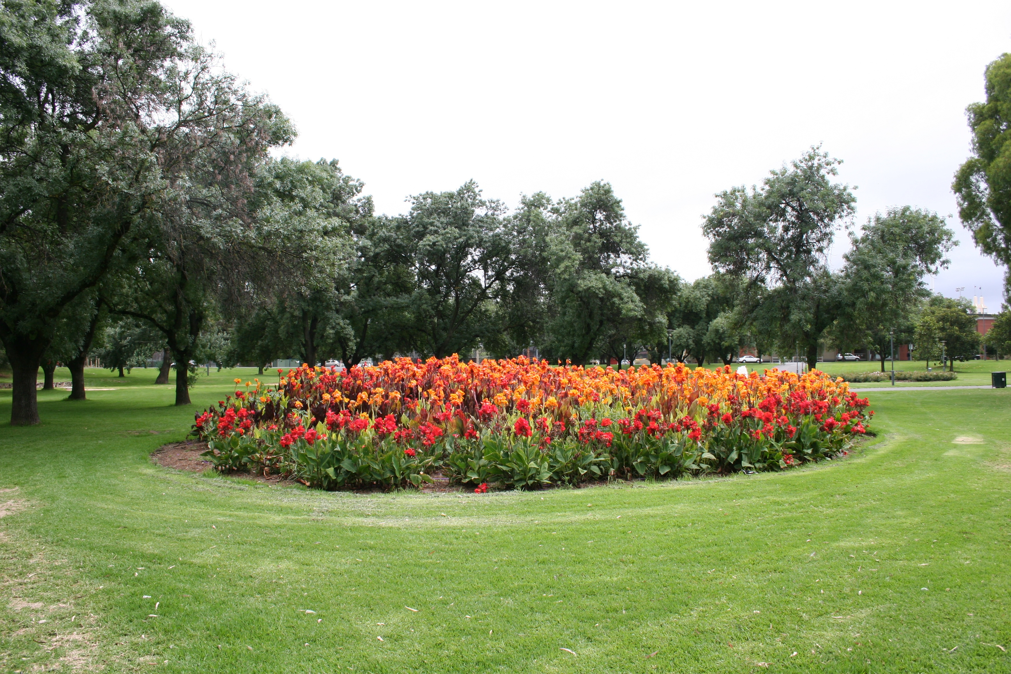 Flower bed in the Adelaide Parklands